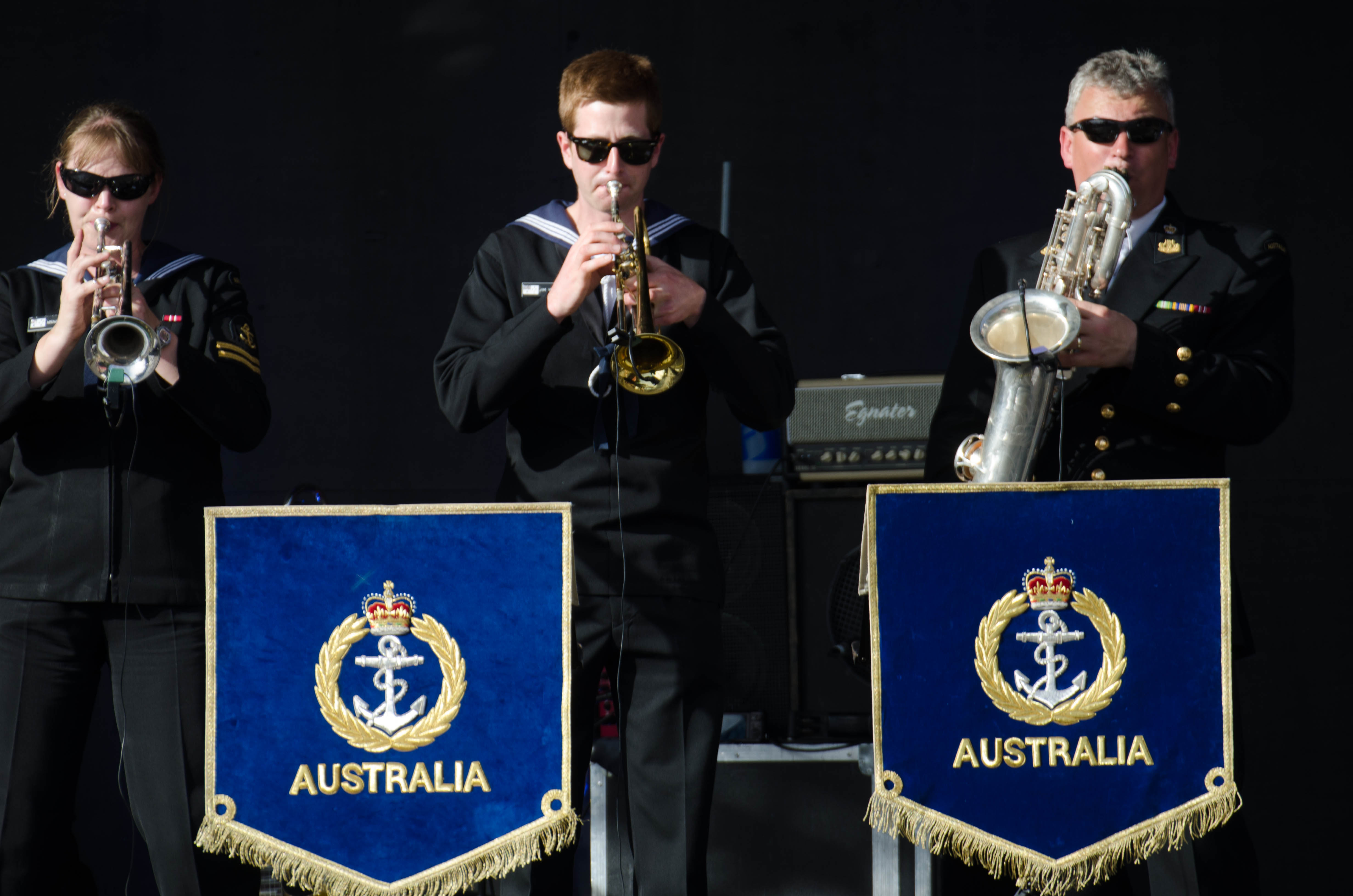 International Fleet Review 2013 Open Day Band